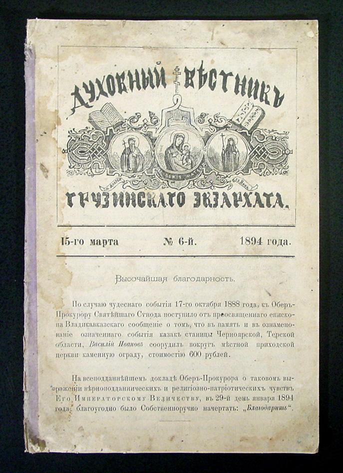 Dukhovni vestnik Gruzinskogo egzarkhata